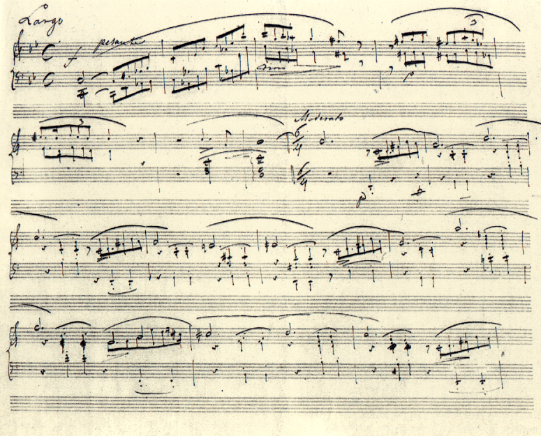 Beginning of Ballade Nr.1 of Frédéric Chopin - manuscript